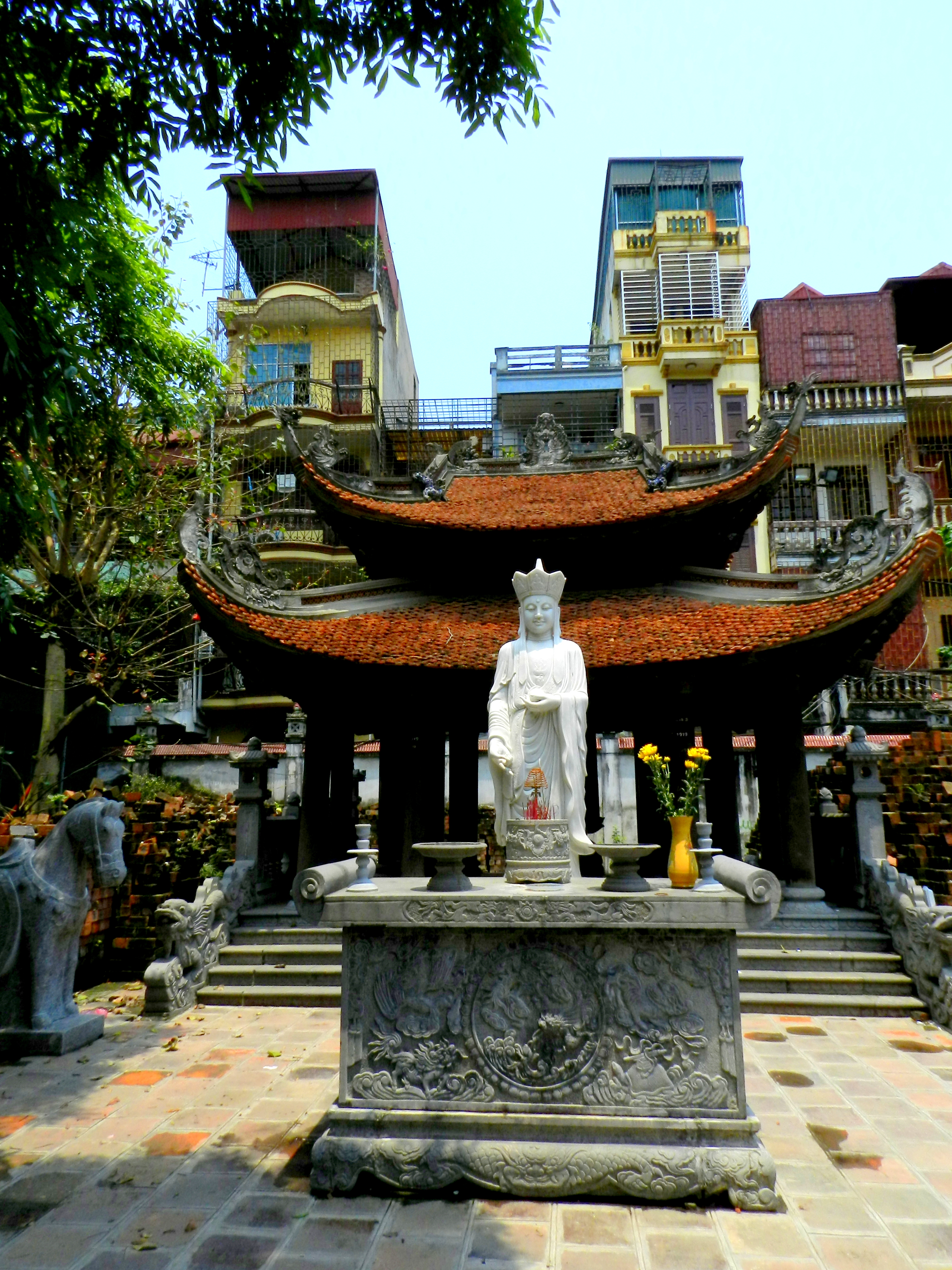 Hai Bà Trưng Temple in Hanoi, Vietnam